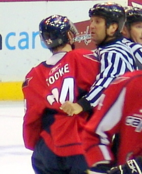 Matt Cooke during his brief 17-game stint with the Washington Capitals in a game against the team he would sign with the following season, the Pittsburgh Penguins, March 9, 2008 at Verizon Center in Washington, D.C.